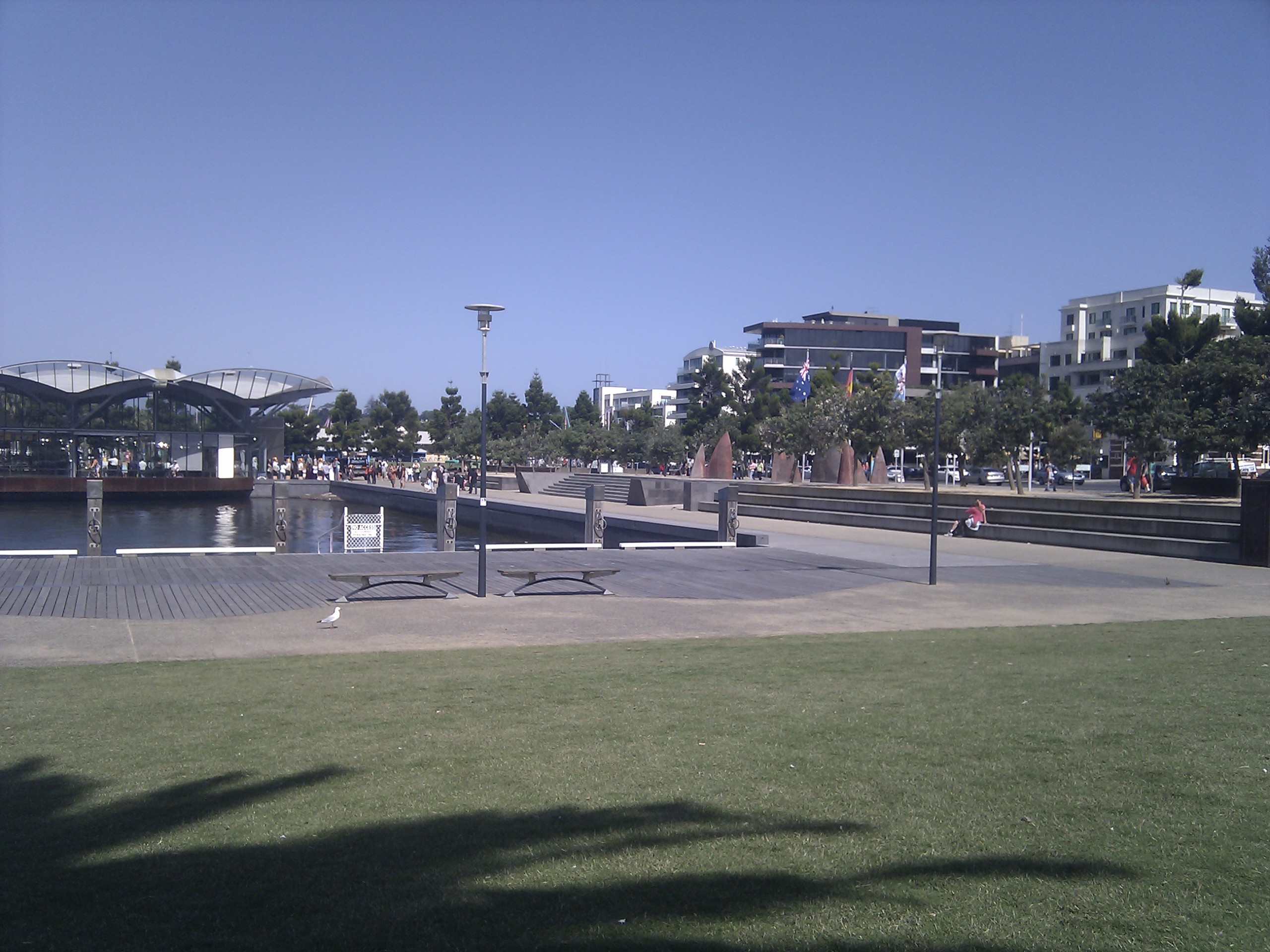 Geelong Waterfront, 12 November 2011, taken near Cunningham Pier in Geelong City Centre.